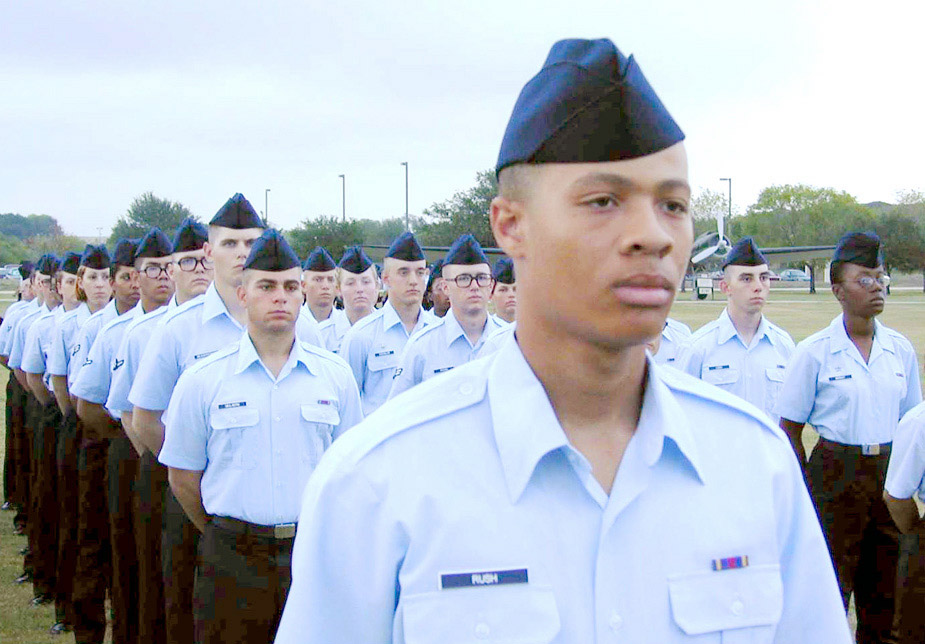 Airman Basic Wendell Rush stands in front of his fellow airmen prior to basic military training graduation here Oct. 6, 2000. Rush, of Centralia, Ill., signed the 34,000th enlistment contract of fiscal 2000 in July, signifying the Air Force's attainment of its recruiting goal. The Air Force eventually surpassed its goal, sending 34,369 new airmen to basic training.